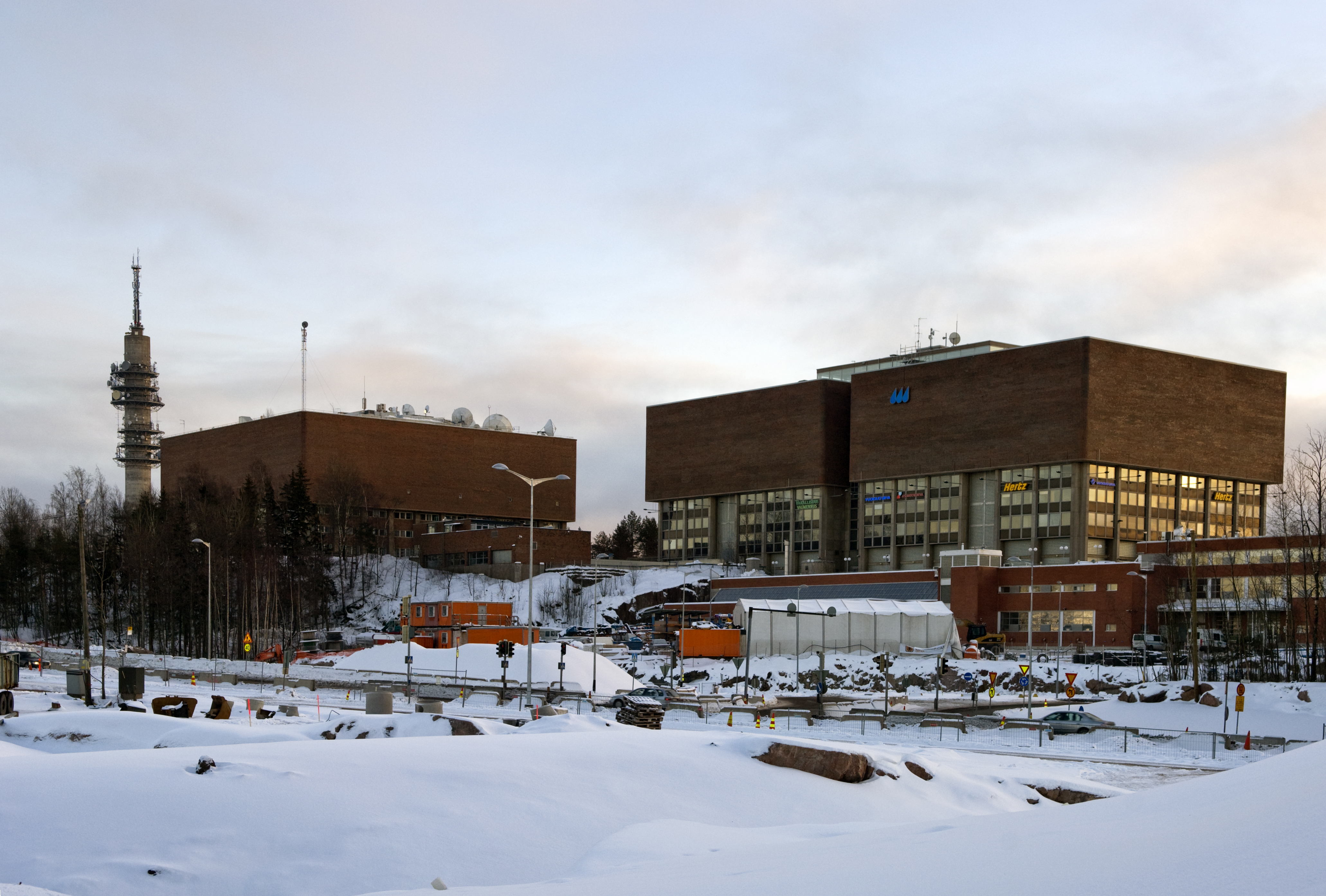 The headquarters of Helsinki Water in Ilmala, Helsinki, Finland.